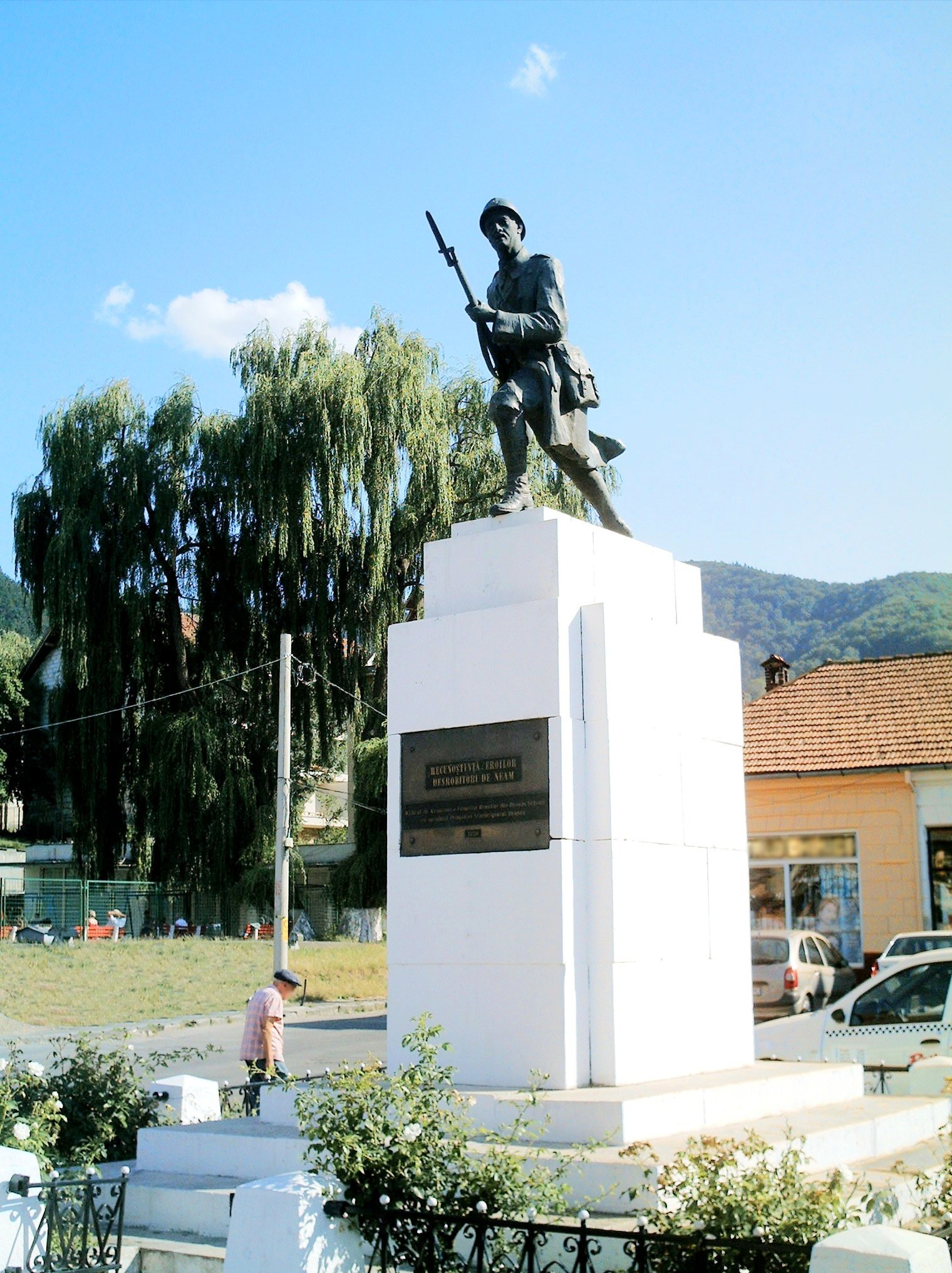 Anonymous Hero